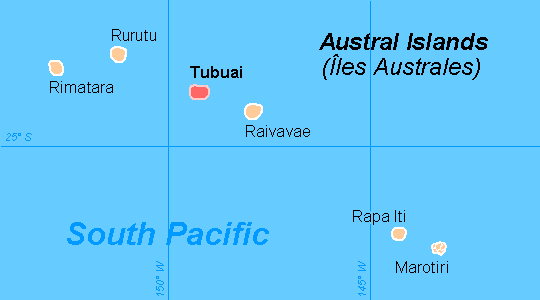 Location of Tubuai within Austral Islands